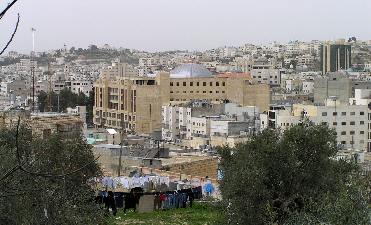 Hebron.